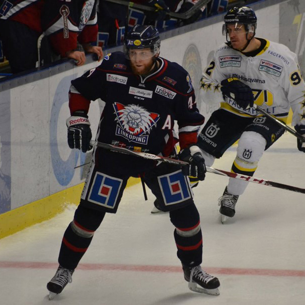 Jonas Junland of Linköpings HC during a SHL game.